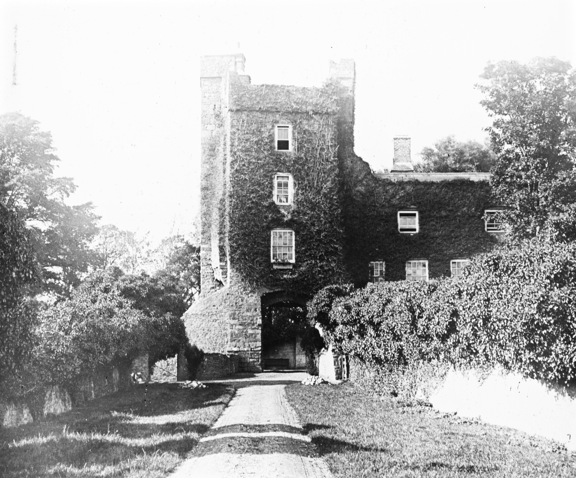 Staying with the Mason collection we moved a lot closer to Library Towers today. Though the catalogue entry meant we knew what and where today's image subject was, we thought that the community might find something interesting on the history of Drimnagh Castle. As usual, members like [/photos/129555378@N07/ sharon.corbet] and [/photos/gnmcauley/ Niall McAuley] gave us extra insights into the history of the castle - as Sharon put it, both before and after Mason took this photo.... Photographer: Thomas H. Mason Collection: The Mason Photographic Collection Date: ca. 1890-1910 NLI Ref: M14/2 You can also view this image, and many thousands of others, on the NLI’s catalogue at